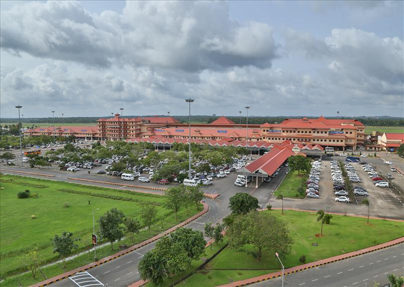 the terminal view of Cochin international airport in India